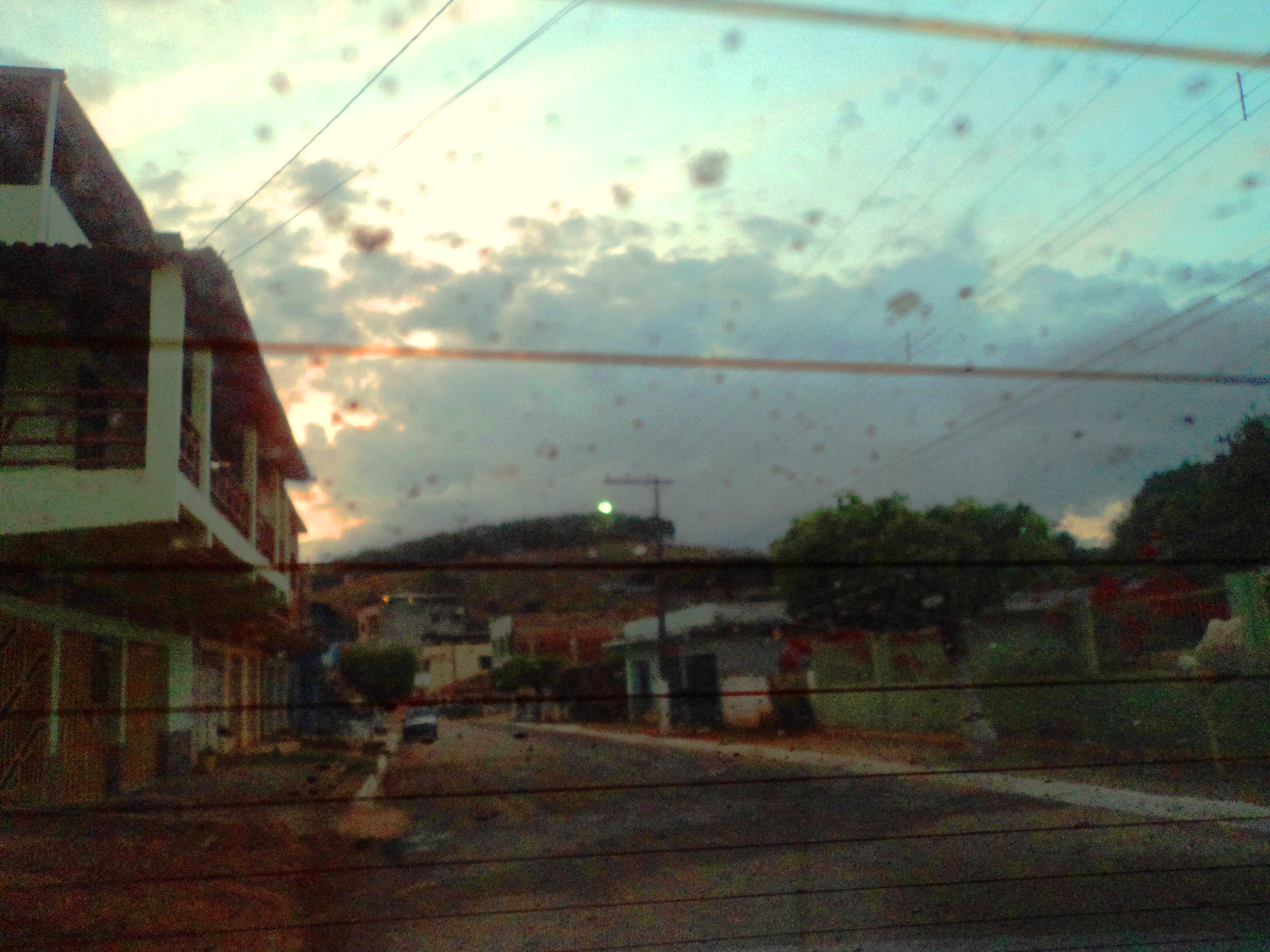 Street in the downtown of Bugre, Minas Gerais, Brazil.